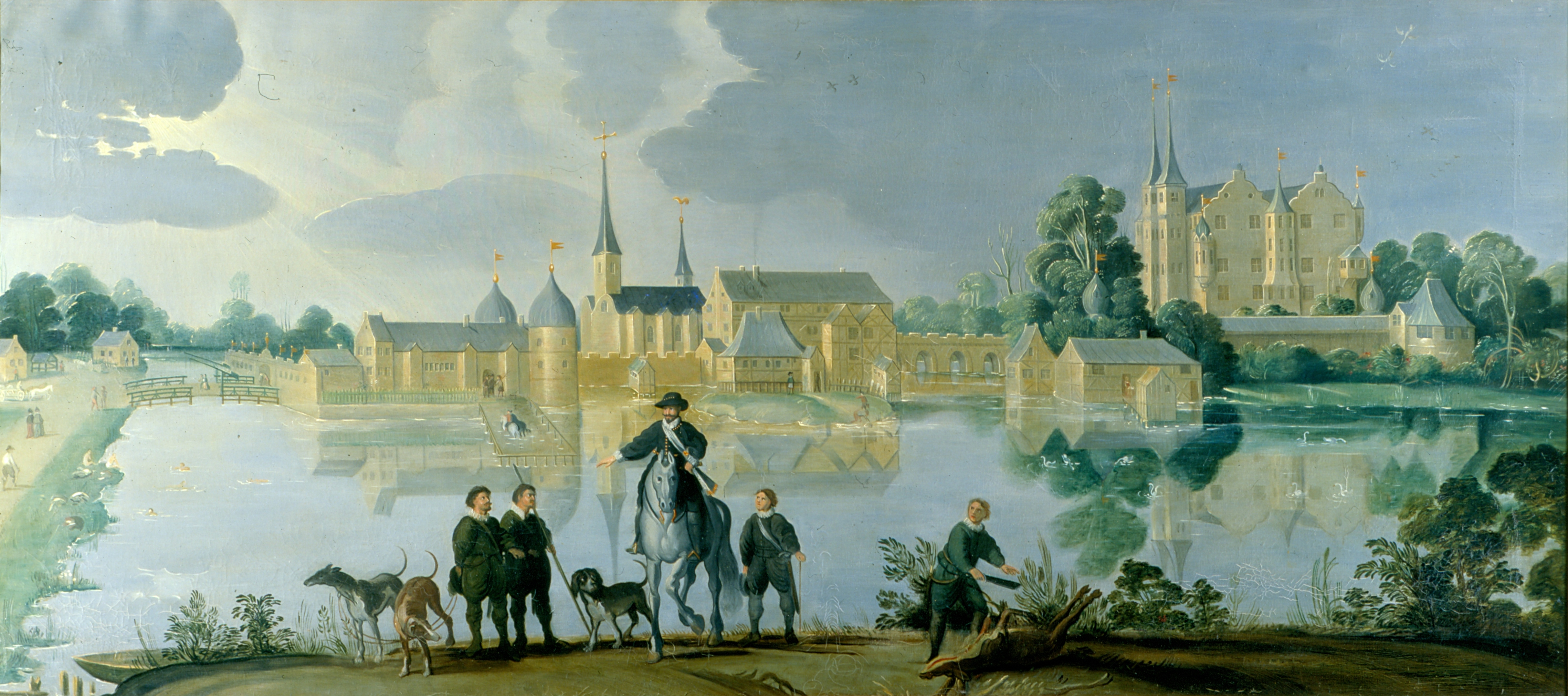 Painting of Hillerødsholm manor shortly after i became Frederiksborg Castle. In Gripsholm Castle, Sweden.